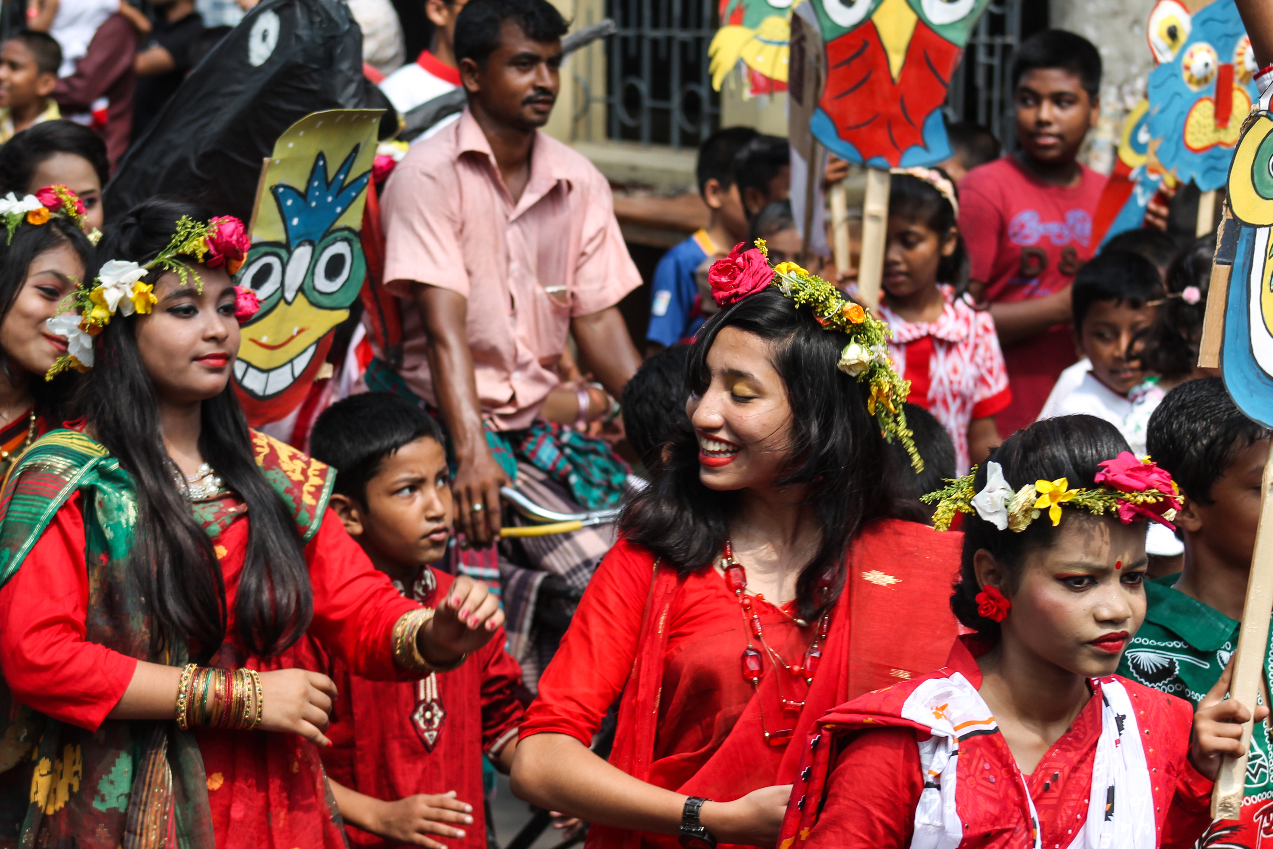 Bangladeshi girls wearing draping sari with flower crown at Pohela Boishakh celebration on 2016 at Agrabad, Chittagong.